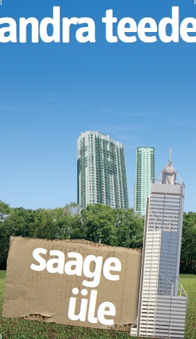 Andra Teede